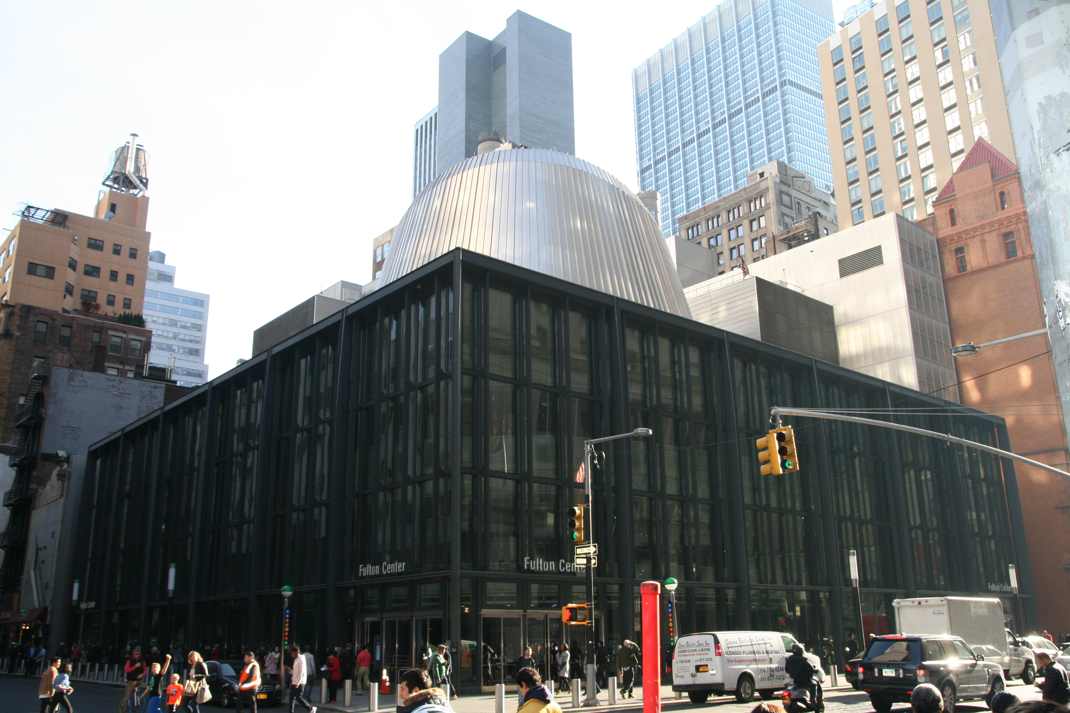 Exterior of the Fulton Building, part of the Fulton Center complex in Manhattan, as seen from the the northwest.